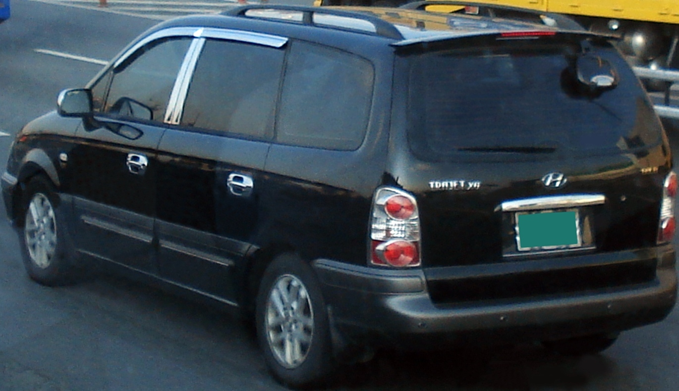 Hyundai Trajet XG